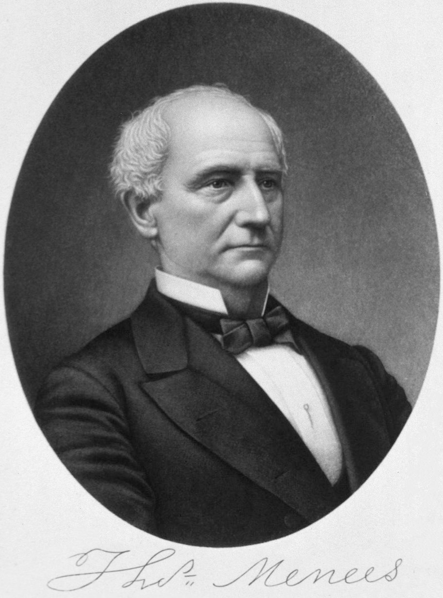 "The National Library of Medicine believes this item to be in the public domain. " Thomas Menees (June 26, 1823 – September 6, 1905)